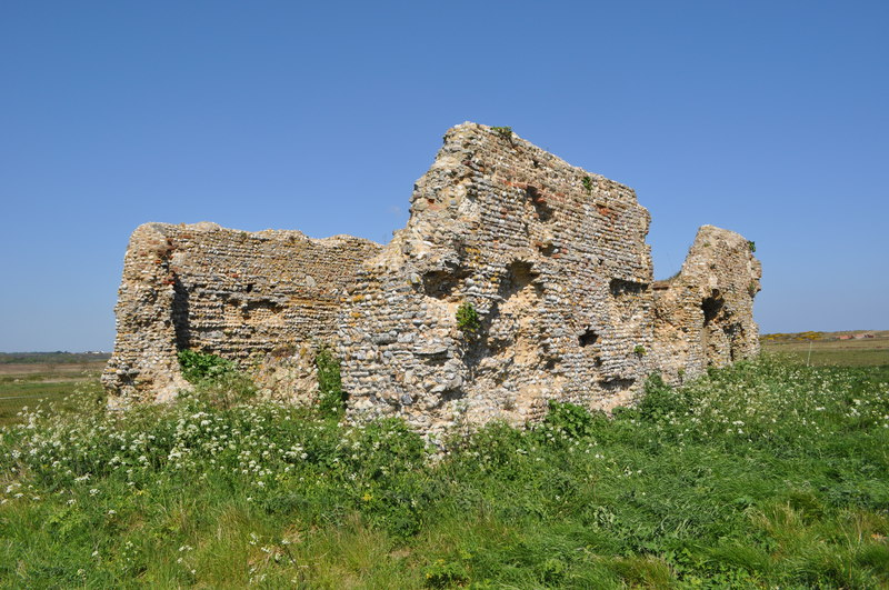 Eastbridge Chapel, near to Eastbridge, Suffolk, Great Britain. All that remains of a 12th C premonstratensian settlement, the group later settled at Leiston and built an impressive abbey in 1382, exactly 200 years after the community first formed. Sited on private land, the site also houses a pillbox.